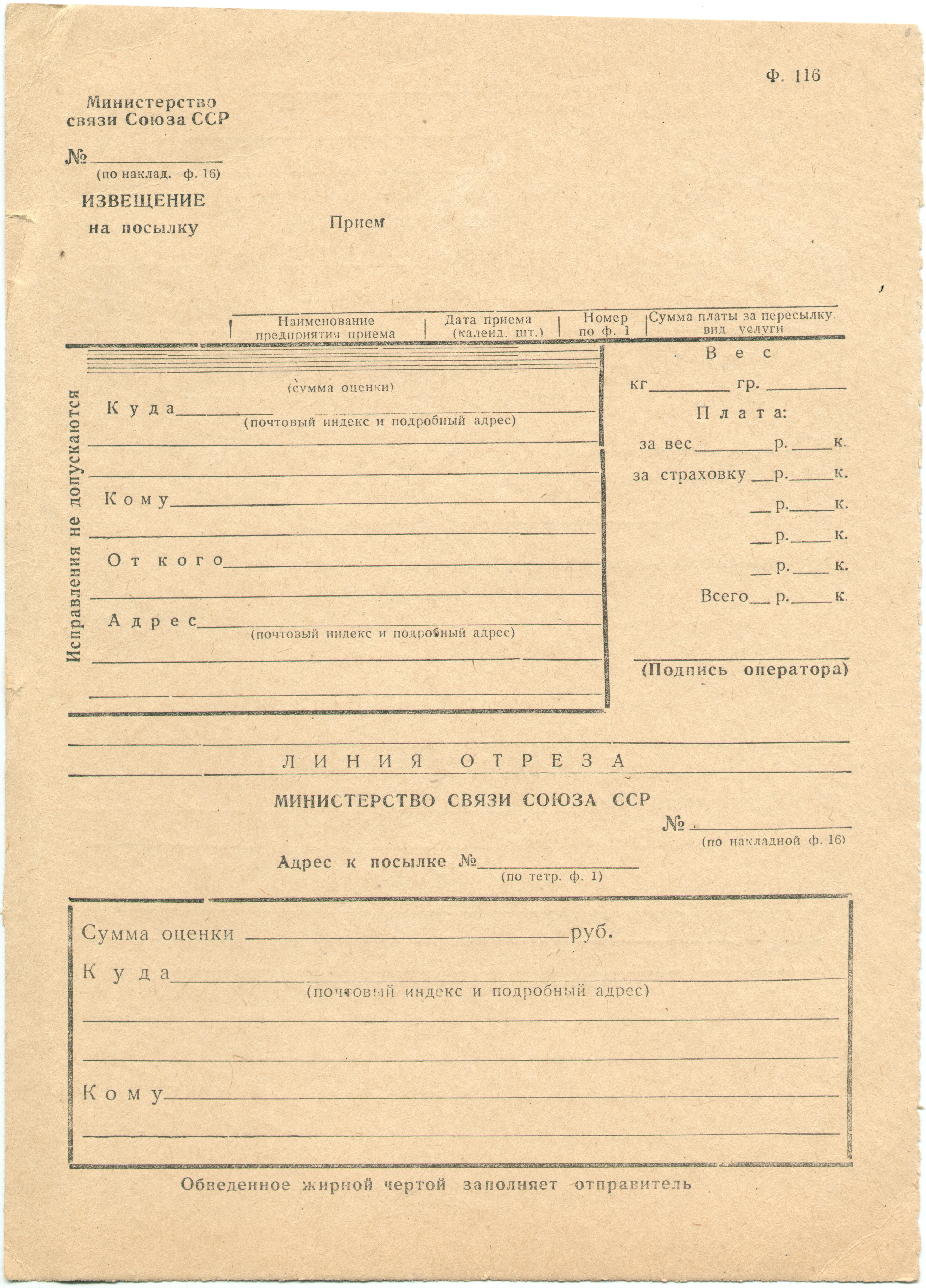 USSR Package Mailing form, Form 116, front side, printed in 1979.